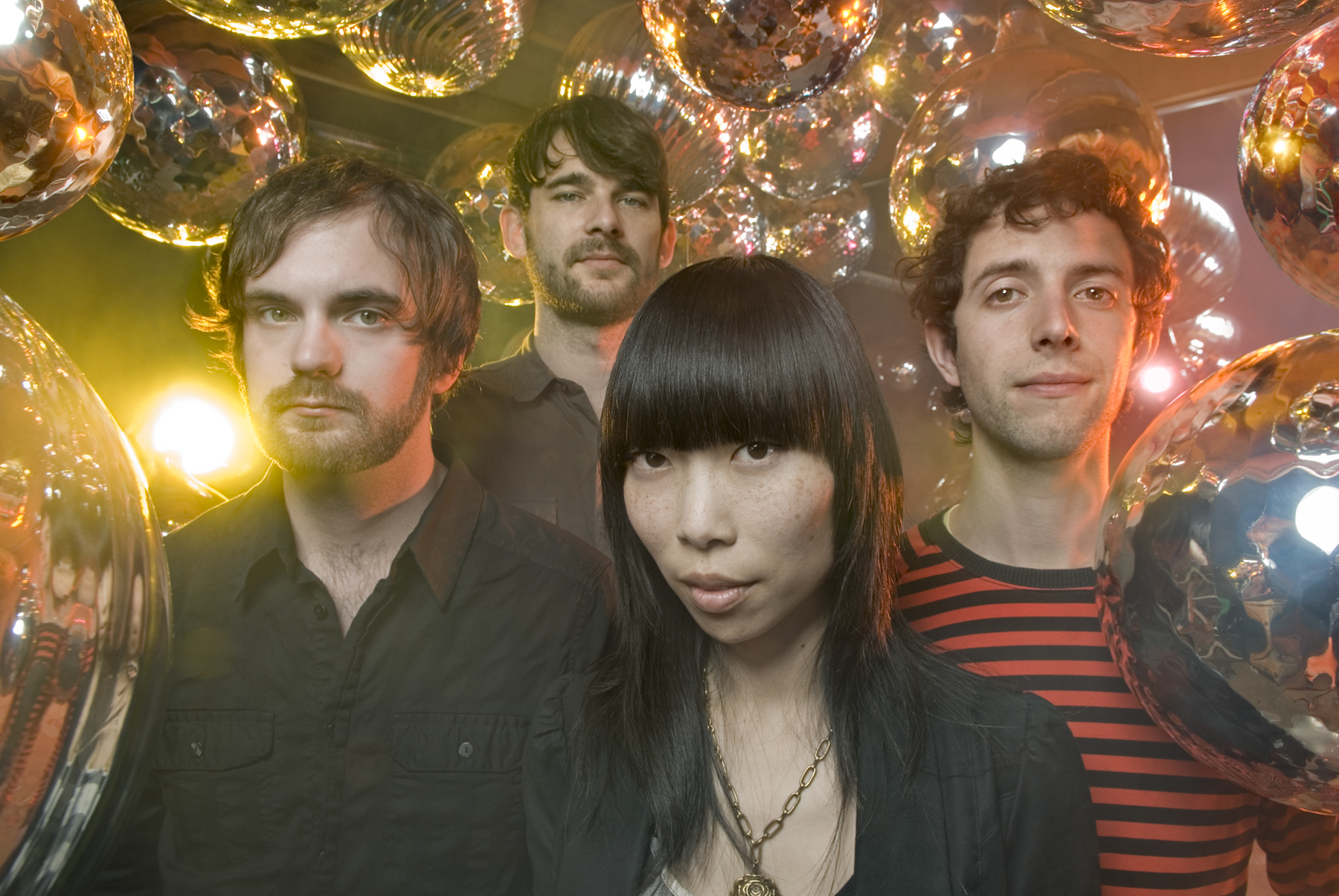 A press photograph of the San Francisco indie rock band LoveLikeFire, 2009. Left to right: Eric Amerman, David Farrell, Ann Yu, Marty Mattern.